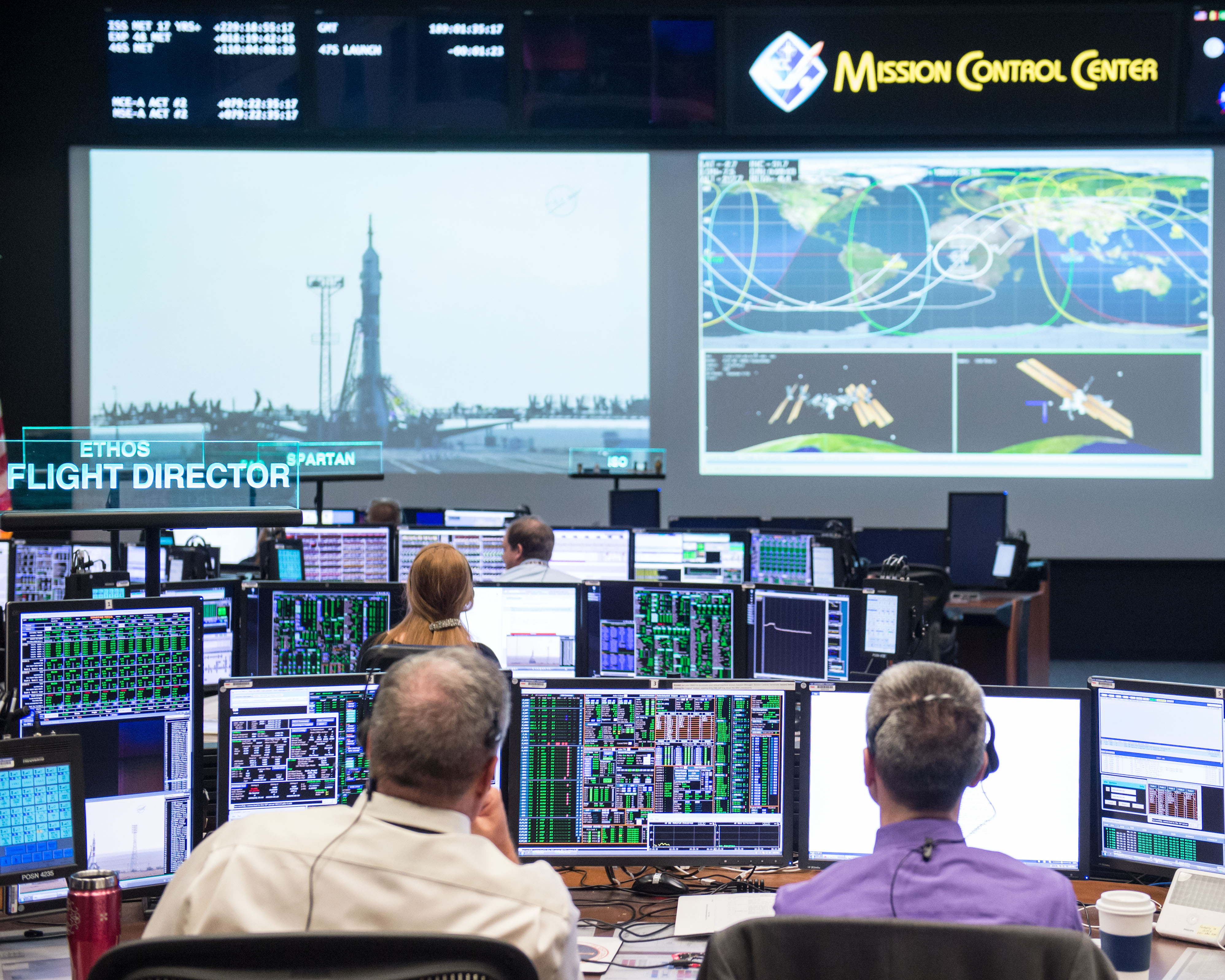 Expedition 48/49 flight control team during Launch of the Expedition 48-49 Crew, Russian cosmonaut Anatoly Ivanishin, NASA astronaut Kate Rubins and JAXA astronaut Takuya Onishi on the Soyuz MS-01 spacecraft from the Baikonur Cosmodrome in Kazakhstan.